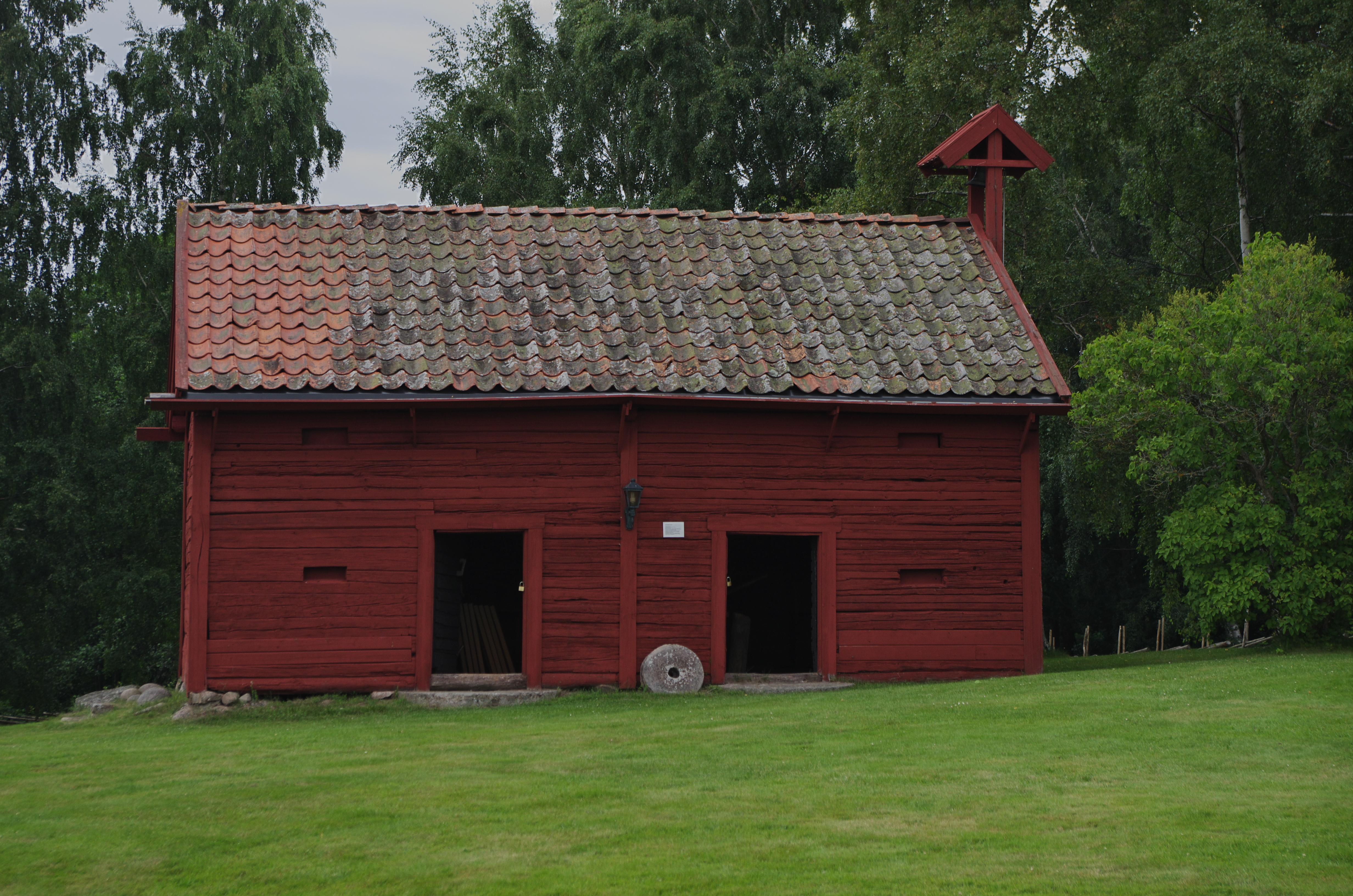 Bankeryd Folk Museum